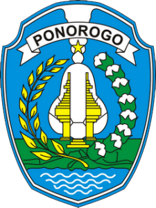 Coat of Arms (Lambang) of Ponorogo Regency (Kabupaten), East Java, Indonesia